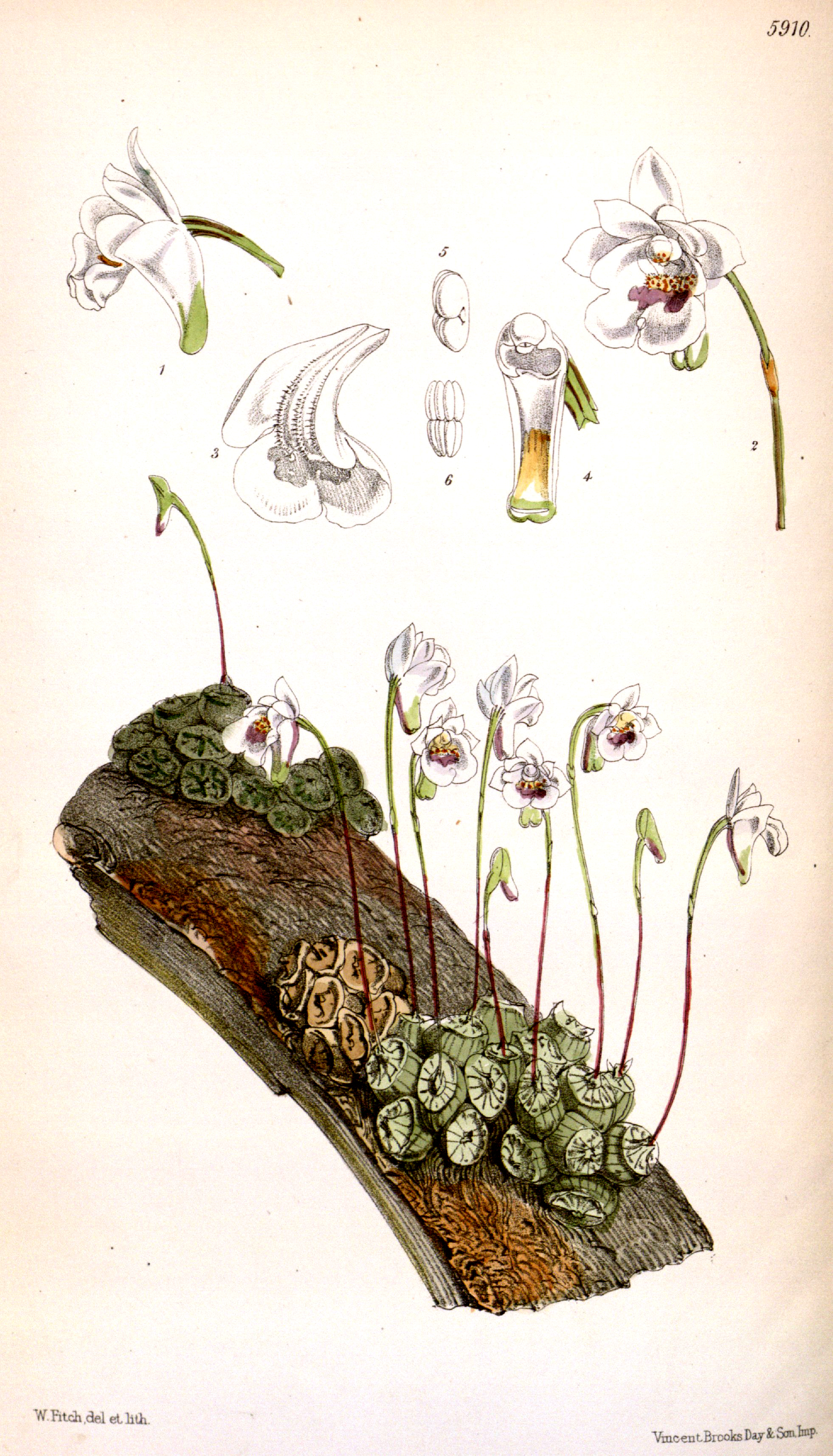 Illustration of Conchidium extinctorium (as syn. Eria extinctoria)